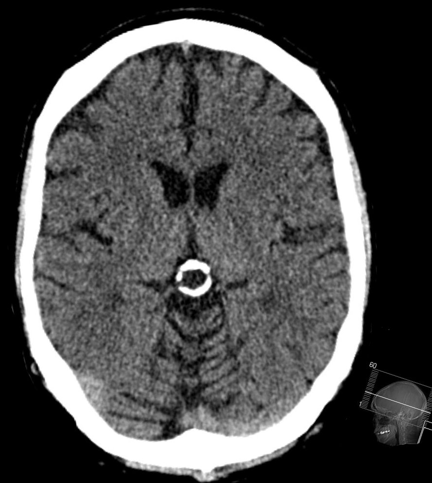 Calcified cyst of pineal gland in CT.